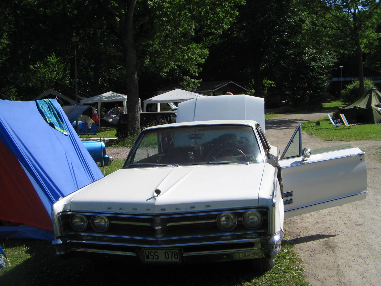 1966 Chrysler 300 2D, with 325hp 383 ci V8.